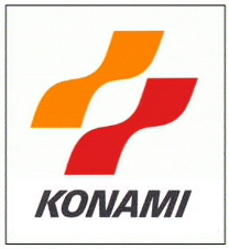 Konami 2nd logo.